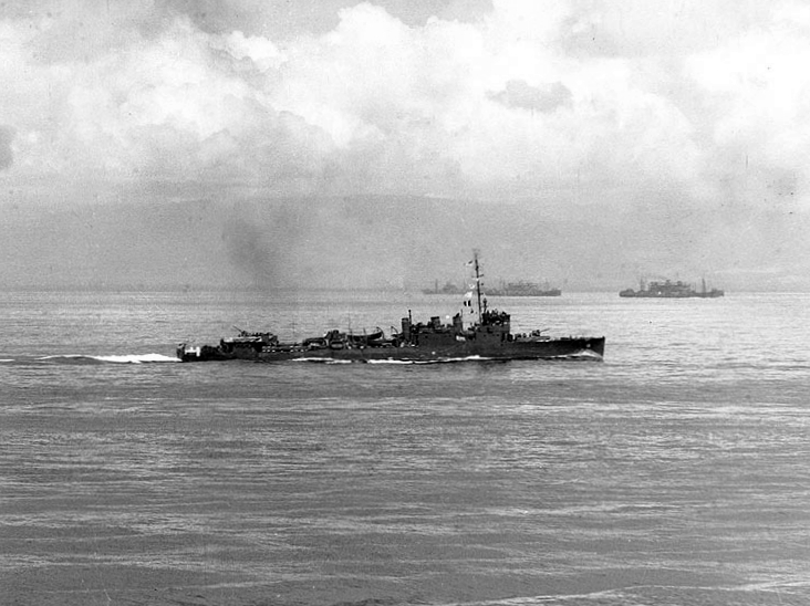 The U.S. Navy destroyer minesweeper USS Hopkins (DMS-13) steams past the transport area between Guadalcanal and Tulagi on 8 August 1942, the day after U.S. Marines landed at both places.